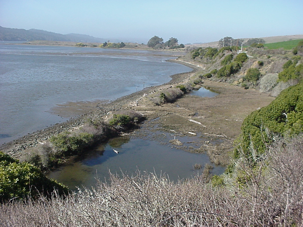 Former North Pacific Coast Railroad grade adjacent to Tomales Bay — viewed from California Highway 1